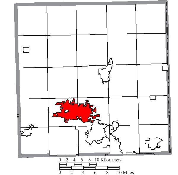 Map of the municipal and township boundaries of Trumbull County, Ohio, United States, as of the 2000 census, with the location of the city of Warren highlighted. Township borders are shown only in unincorporated areas in order to differentiate incorporated and unincorporated areas more clearly.